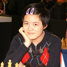 Source: Frederic Friedel, The photograph was taken in January 2007 at the Corus chess tournament in Wijk aan Zee by Frederick Friedel. In an email sent on 30 May 2007, he wrote: "However I am attaching two pictures I took this January in Wijk aan Zee of this remarkable young girl. You are free to use them and put them in the public domain." As permitted by Mr Friedel, this image was edited (scale to 220px width) from the attached file "hou02.jpg". I did not create this image as it is based on the work of Mr Friedel, but since I was given permission to place it into the public domain, I do so and thus select "You created this yourself, it is all your own work and release it to the public domain" as the "license". Laserlight 13:06, 4 July 2007 (UTC)